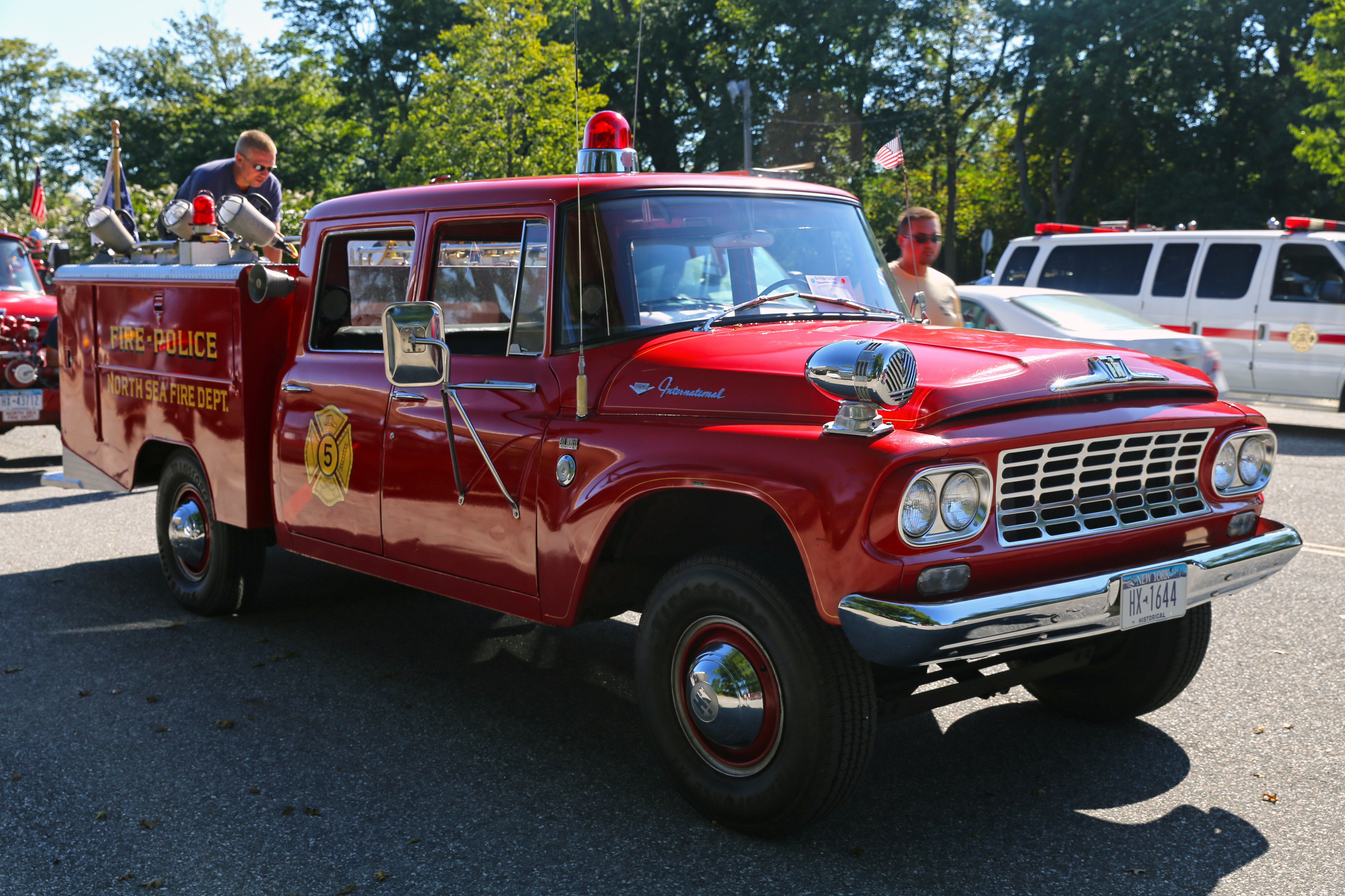 Or maybe it's a 1961? It is listed as a '61 online but marked as a '62 at this show, the Southampton Fire Department Annual Muster (2013), held at the Southampton LIRR station. A cool old truck with the Travelette cab and all-wheel drive.